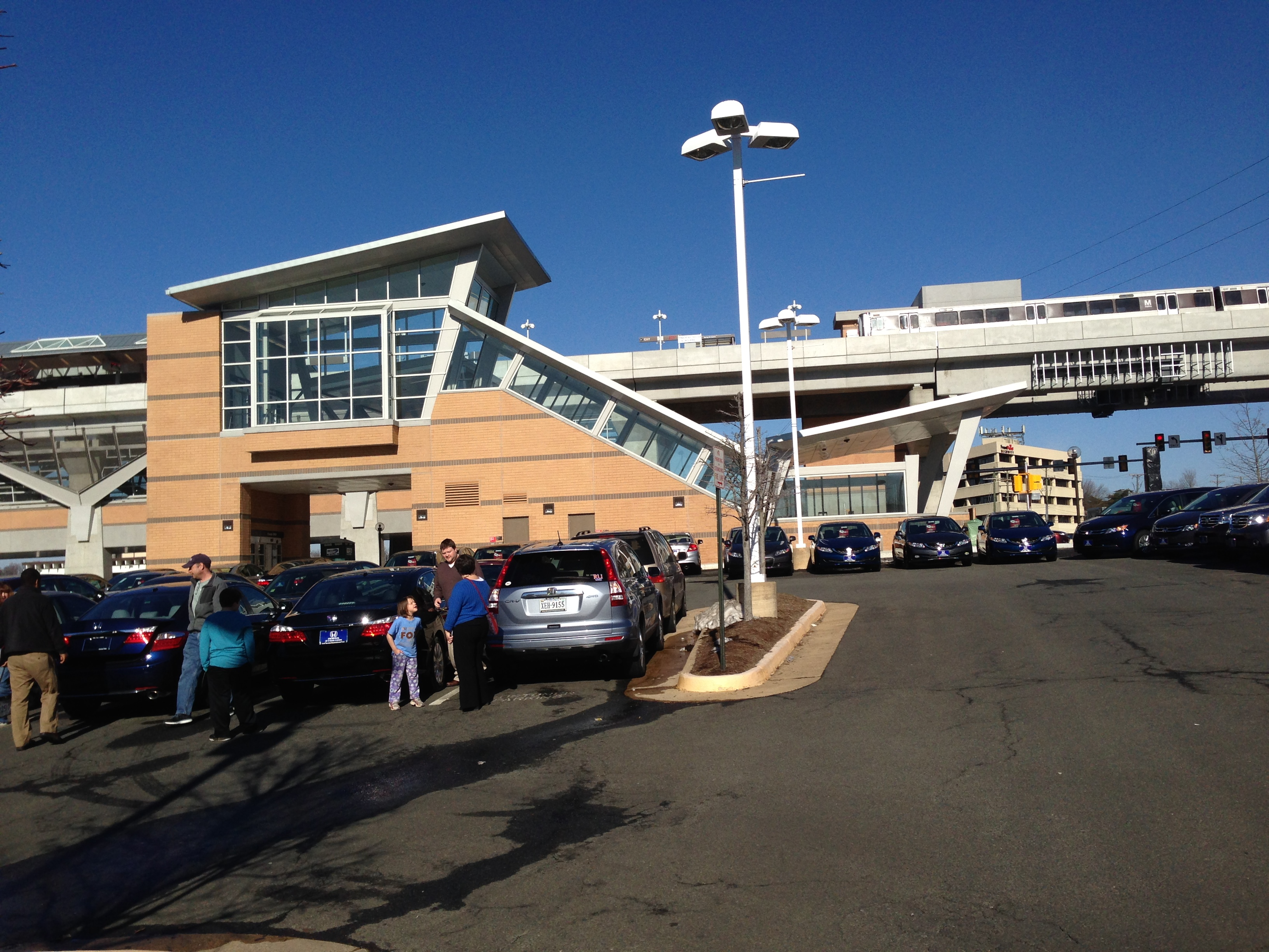 View of WMATA Silver line's Spring Hll station from the south side, 23 Feb 2014.